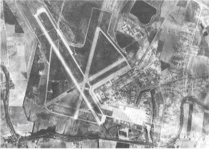 Aerial photograph of England Air Force Base, near Alexandria Louisiana.